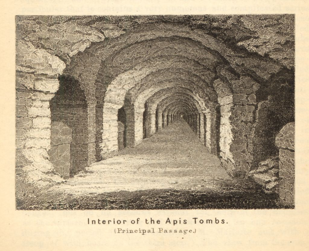 A long hallway cut from stone. Line drawing.